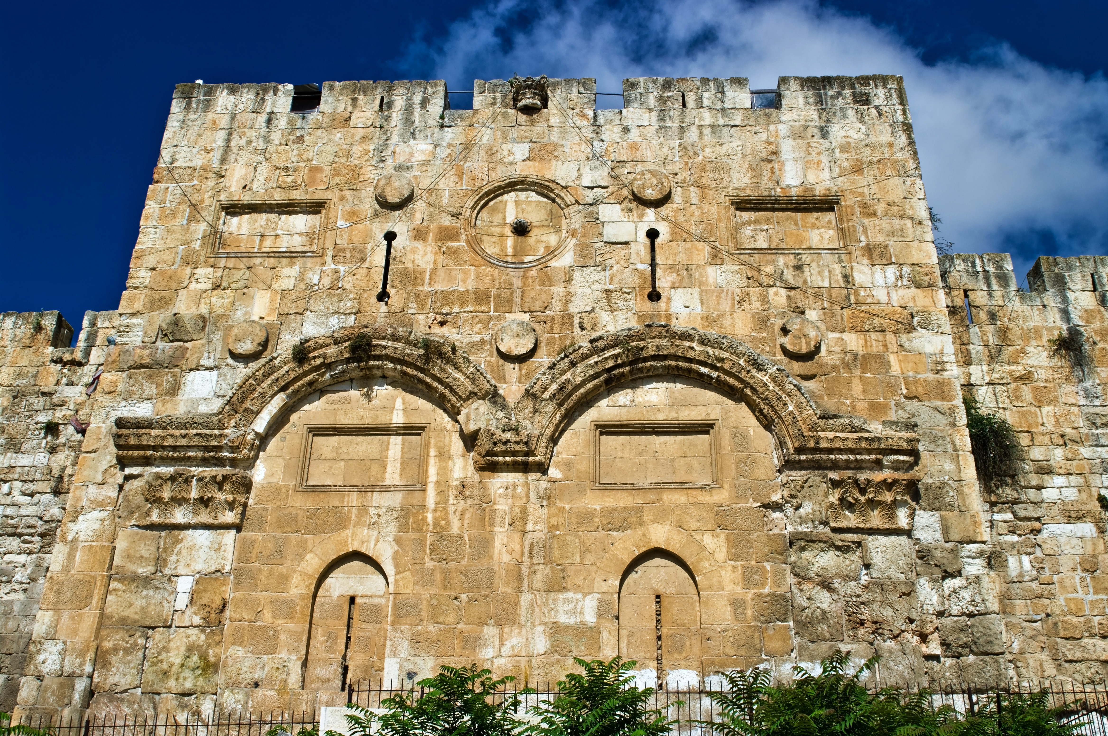 The Golden Gate (Gate of Mercy, Gate of Eternal Life. Sealed in 1541) in the middle of eastern wall of old Jerusalem.